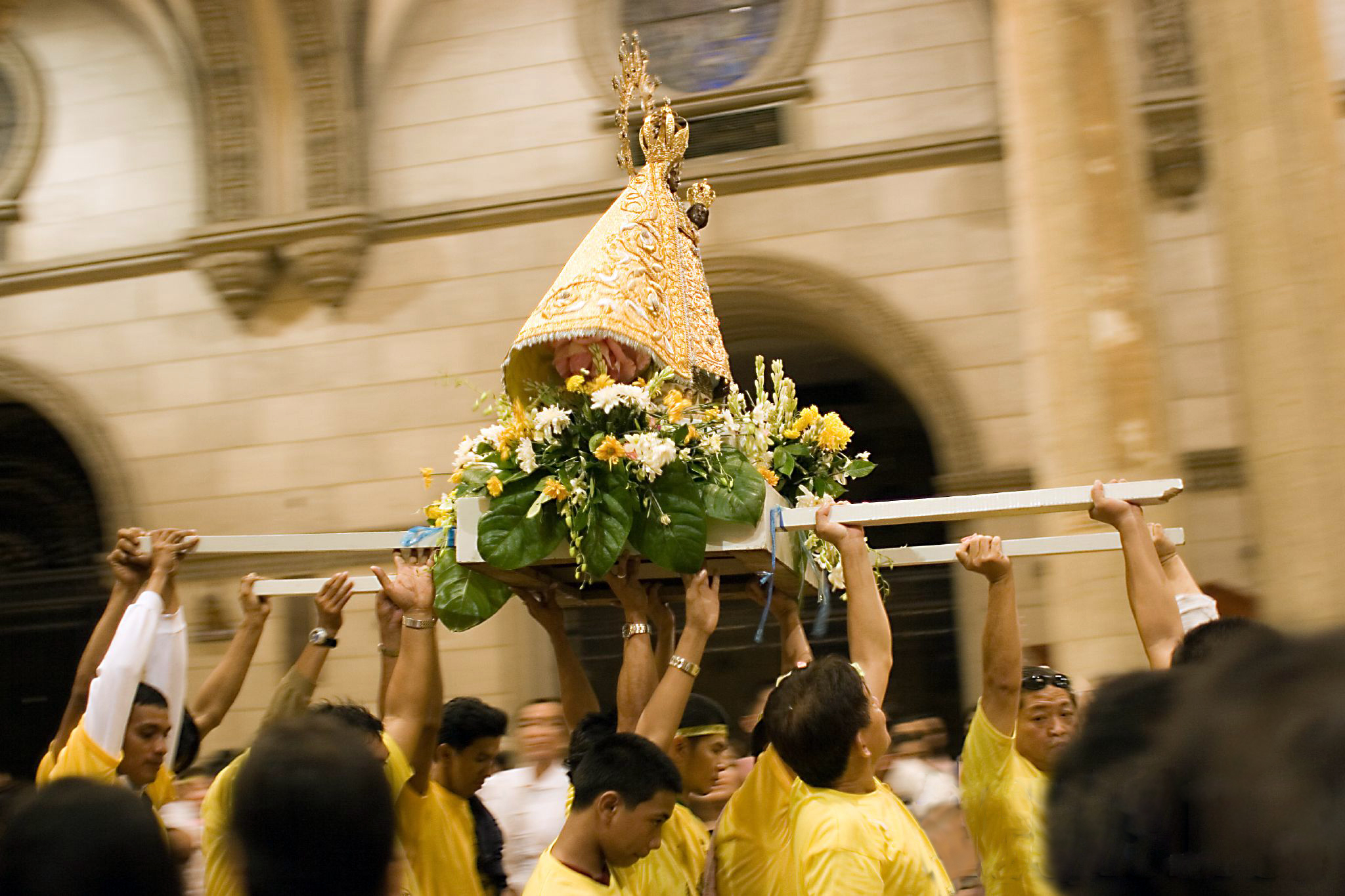 The statue of Our Lady of Peñafrancia is being brought to the altar before the mass celebration began. (Manila Cathedral)